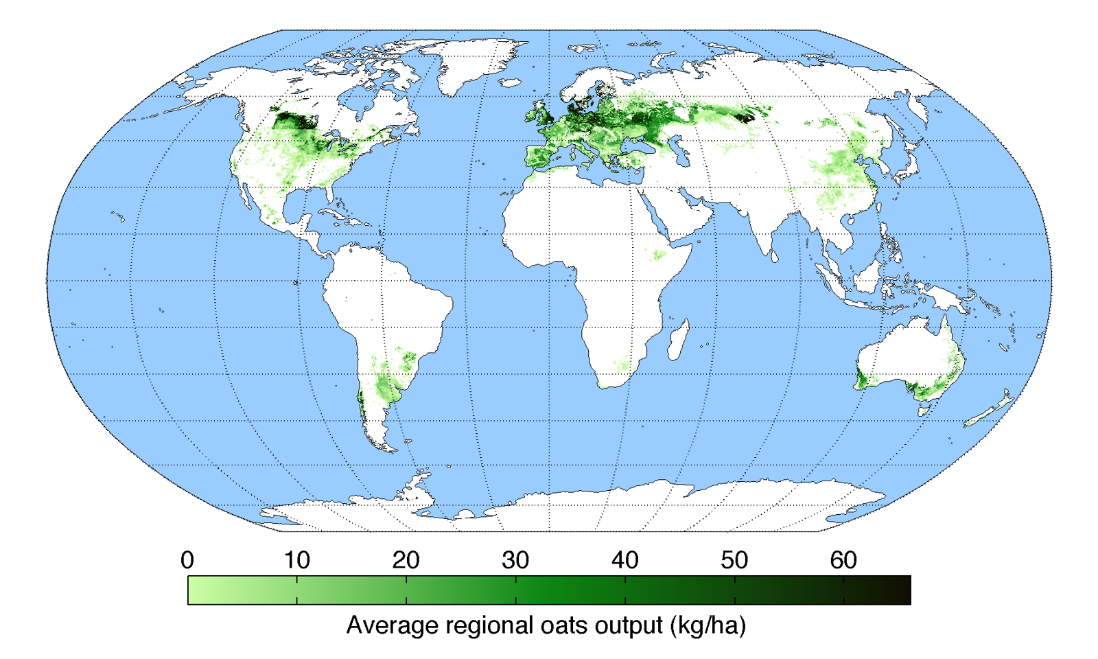 Map of oat production (average percentage of land used for its production times average yield in each grid cell) across the world compiled by the University of Minnesota Institute on the Environment with data from: Monfreda, C., N. Ramankutty, and J.A. Foley. 2008. Farming the planet: 2. Geographic distribution of crop areas, yields, physiological types, and net primary production in the year 2000. Global Biogeochemical Cycles 22: GB1022